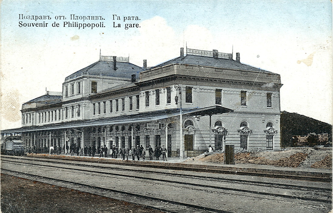 Postcard, undated ( ca.1916 ). Title: "Souvenir of Philippopoli - Train station".